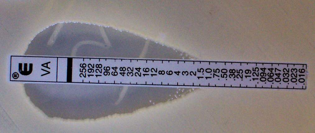 E-test on Staphylococcus aureus for Vancomycin